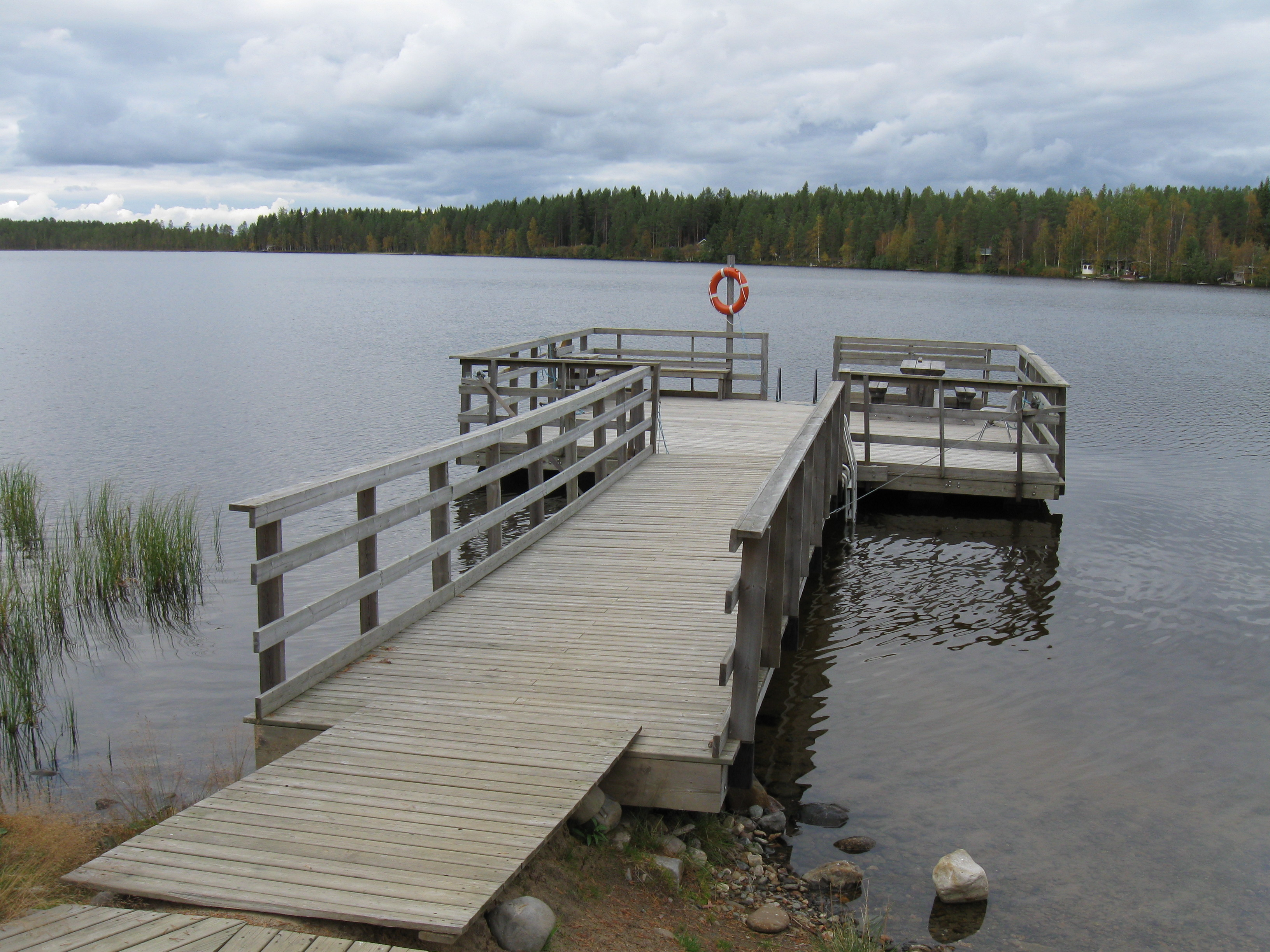 The lake Valkeisjärvi in Sanginkylä, Utajärvi, Finland.